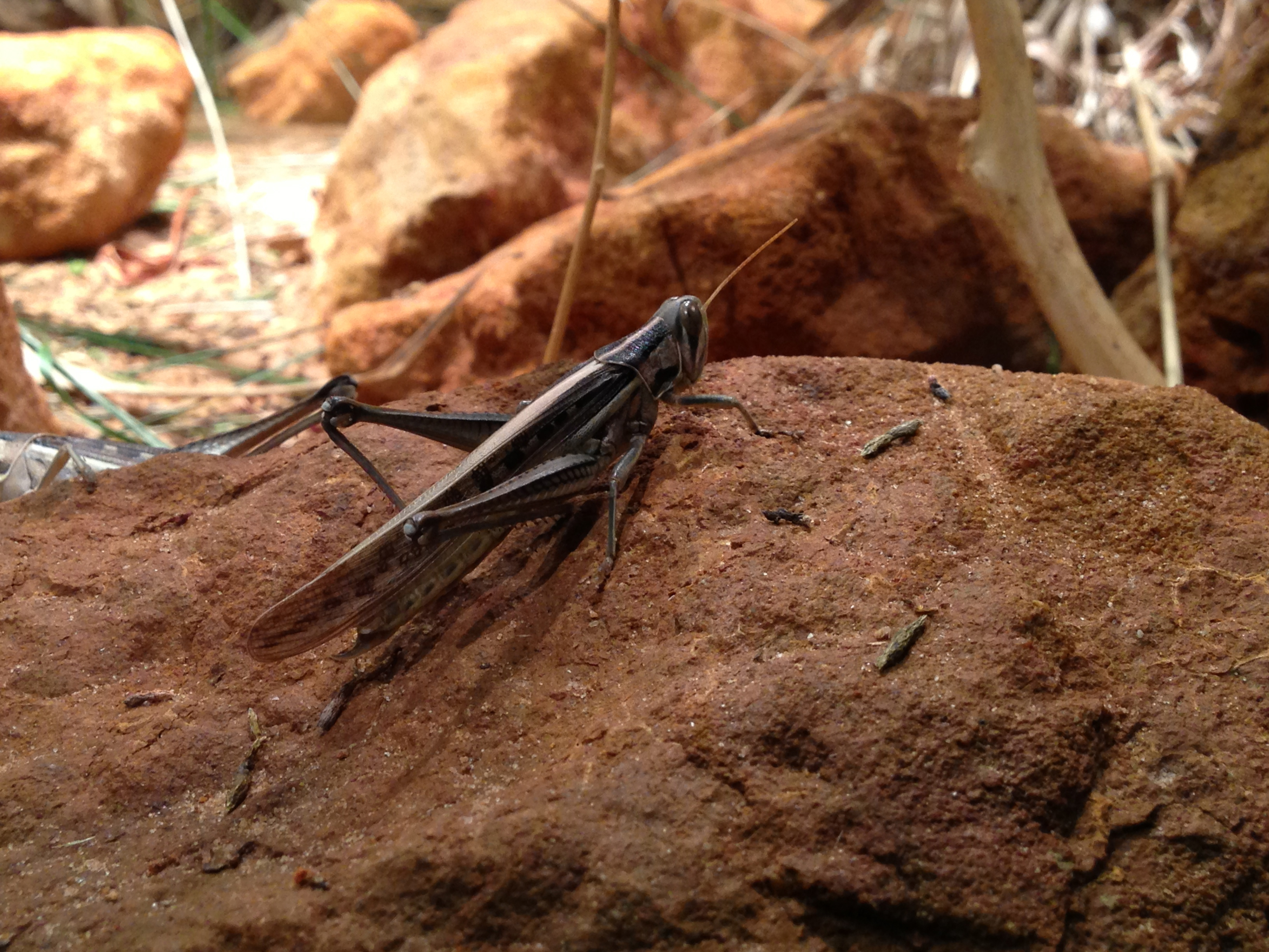 Austracris guttulosa, an Australian spur-throated locust/grasshopper